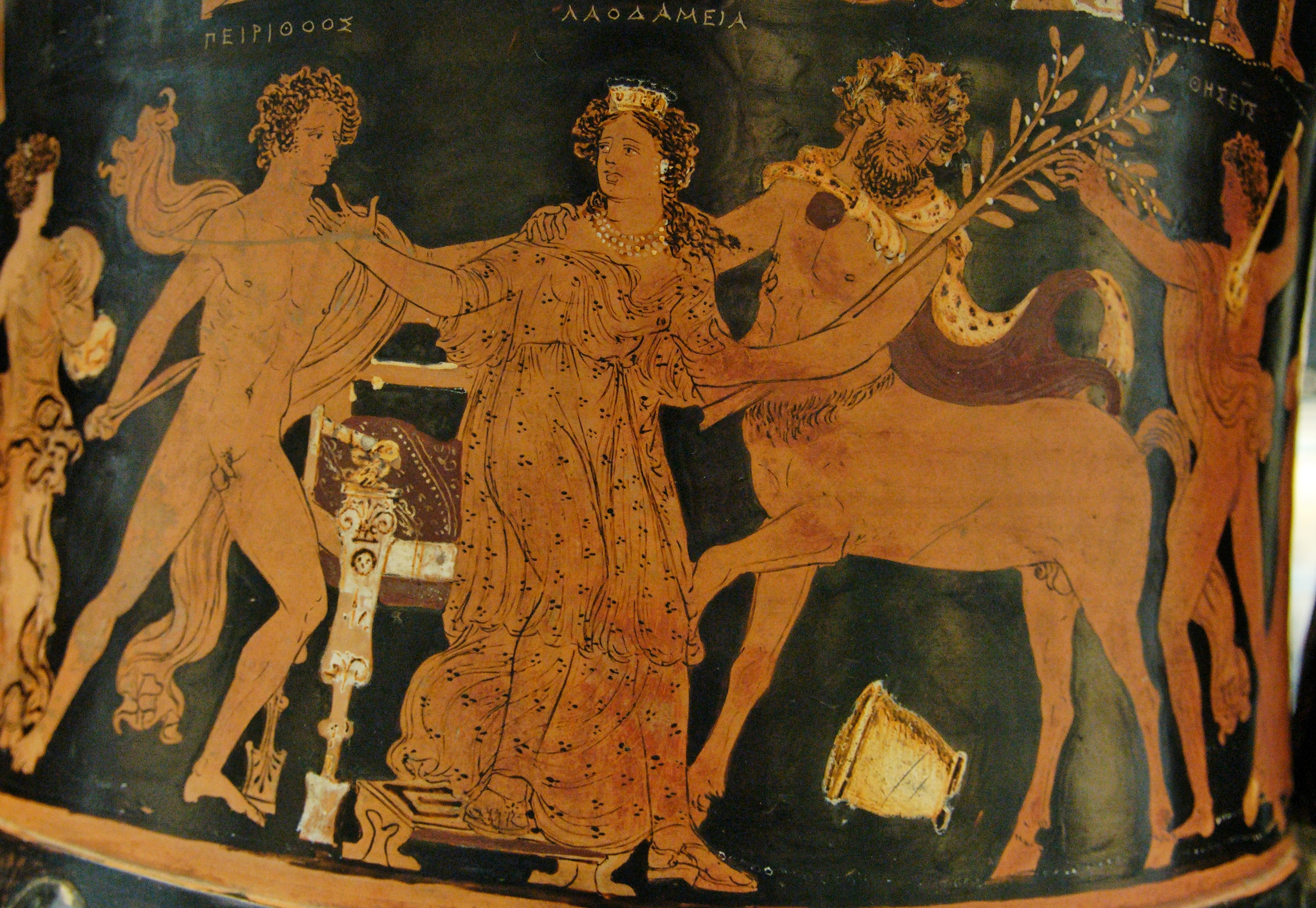 A centaur tries to carry off Hippodameia (here called Laodameia) while Perithoos and Theseus resist. Detail from an Apulian red-figure calyx-krater, ca. 350-340 BC. From Anzi.